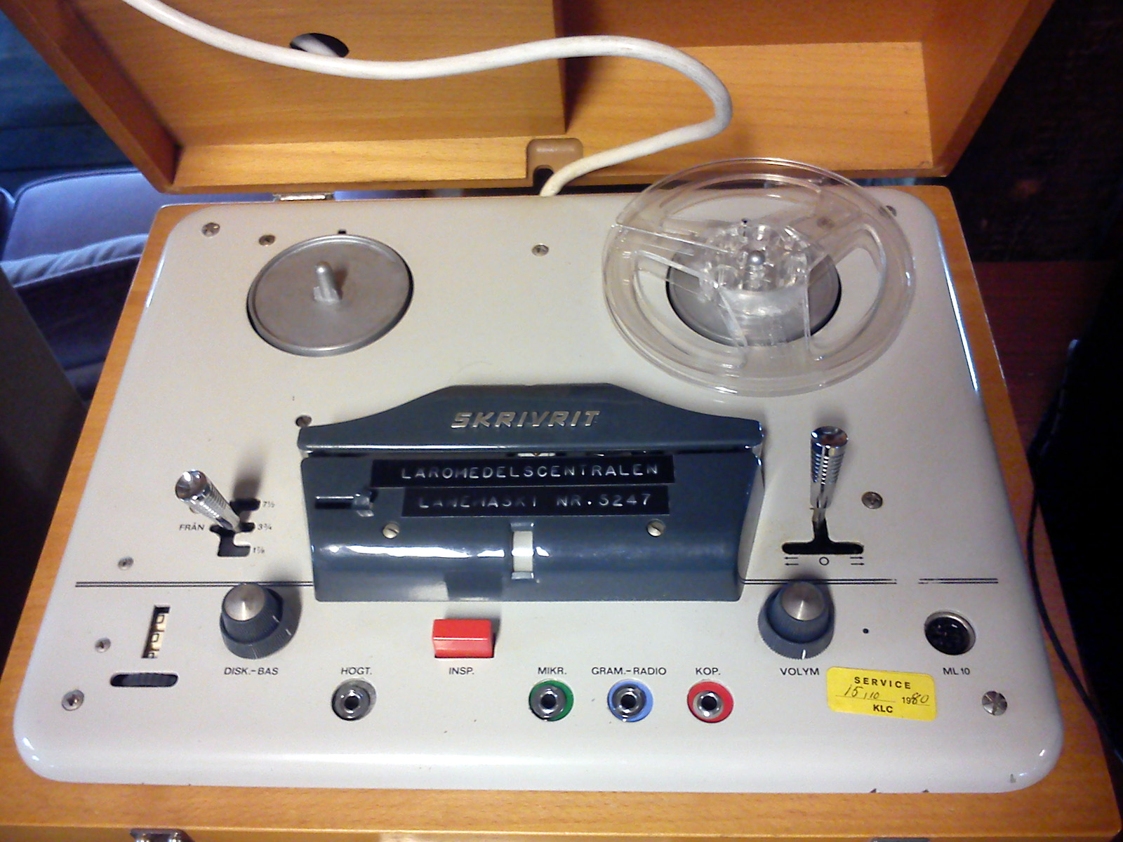 A reel-to-reel tape recorder by Skrivrit, used in Swedish schools.